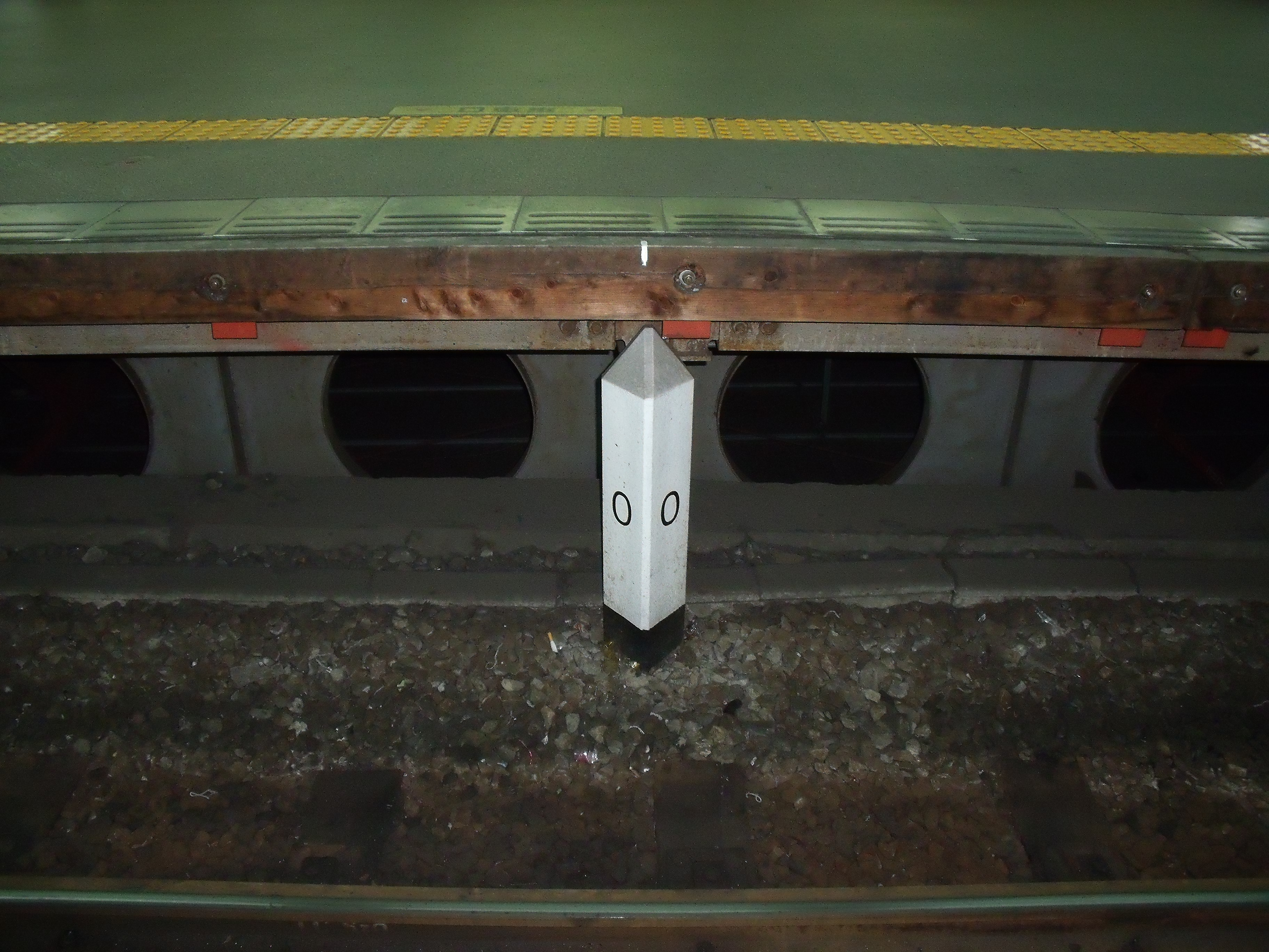 0 km post of Enoshima Electric Railway